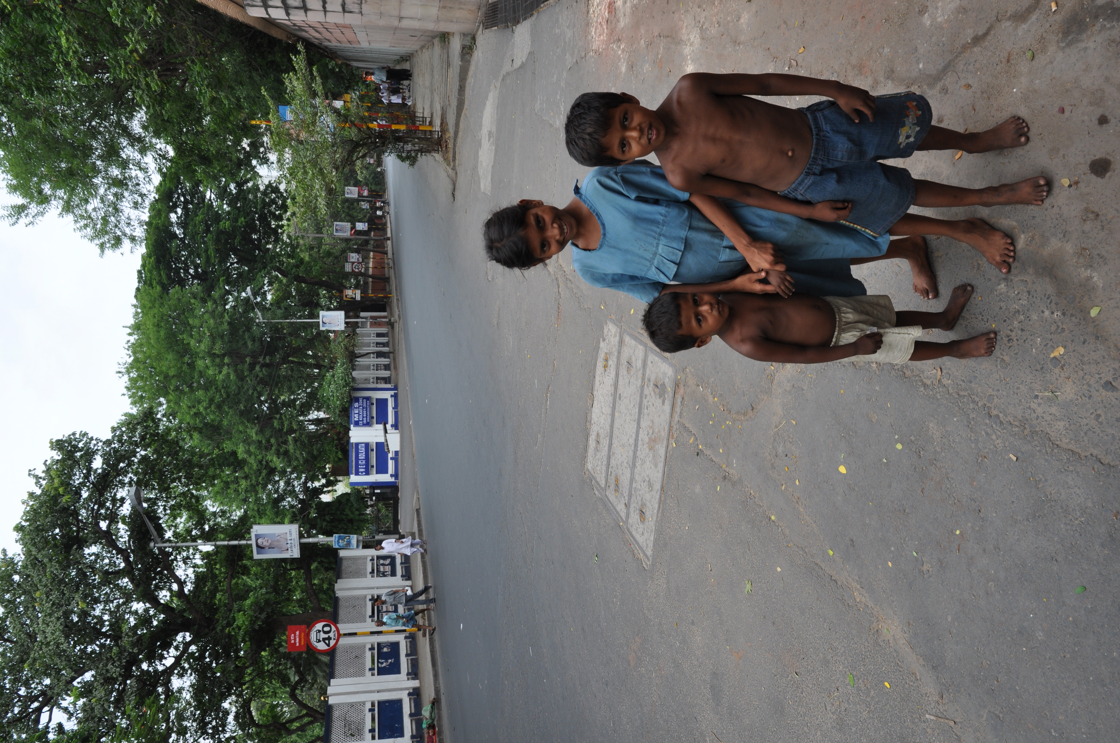 Homeless children at the Gurusaday road, Kolkata.